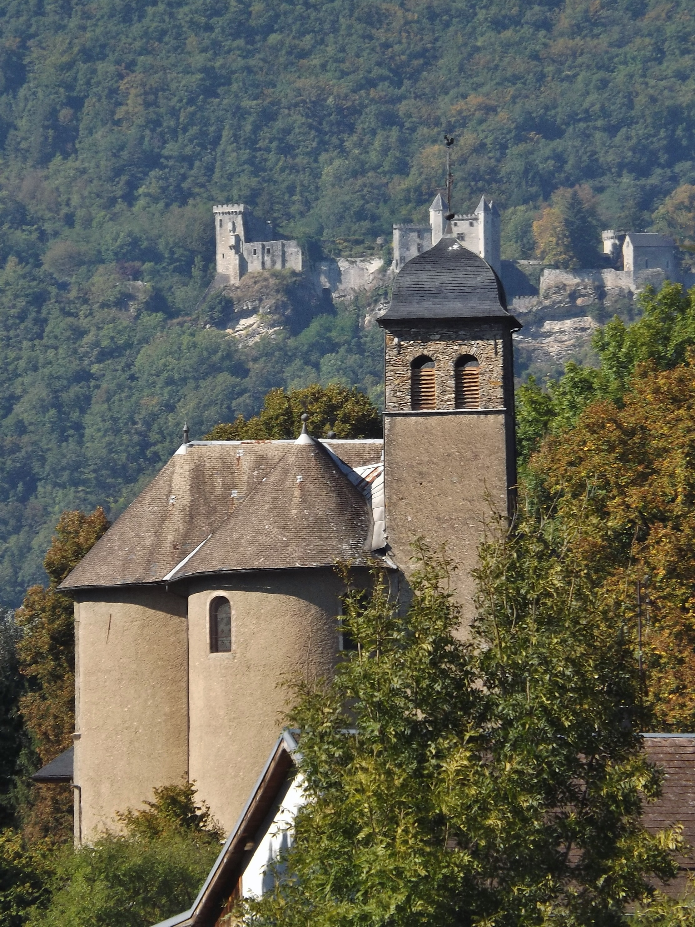 Sight of the église de Chamousset church (foreground) and the château de Miolans castle (background), from Chamousset village, in Savoie, France.